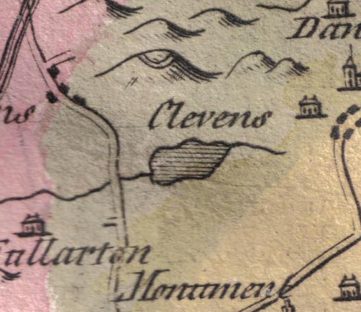 Clevens Loch, South Ayrshire, Scotland